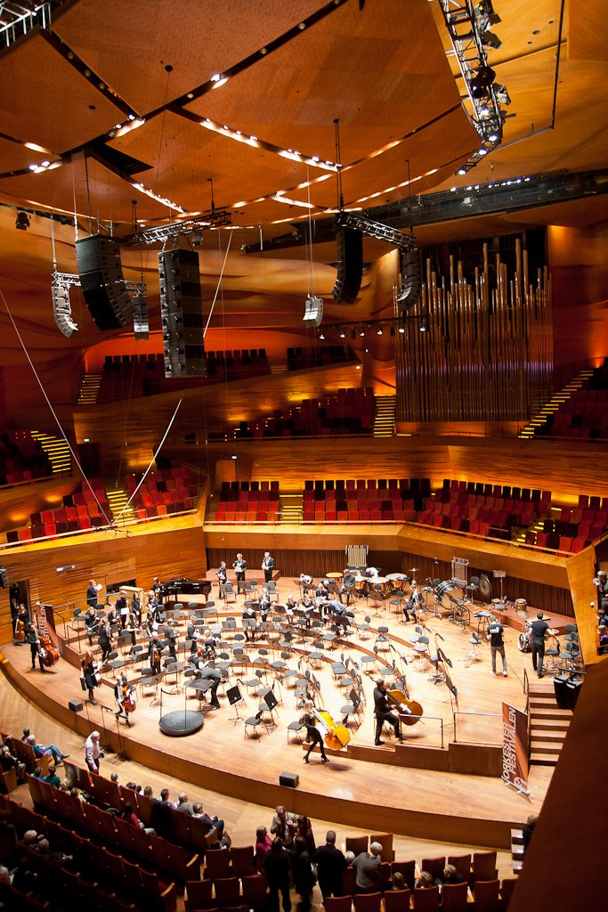 Interior of the main concert hall at DR Byen, Copenhagen, Denmark.